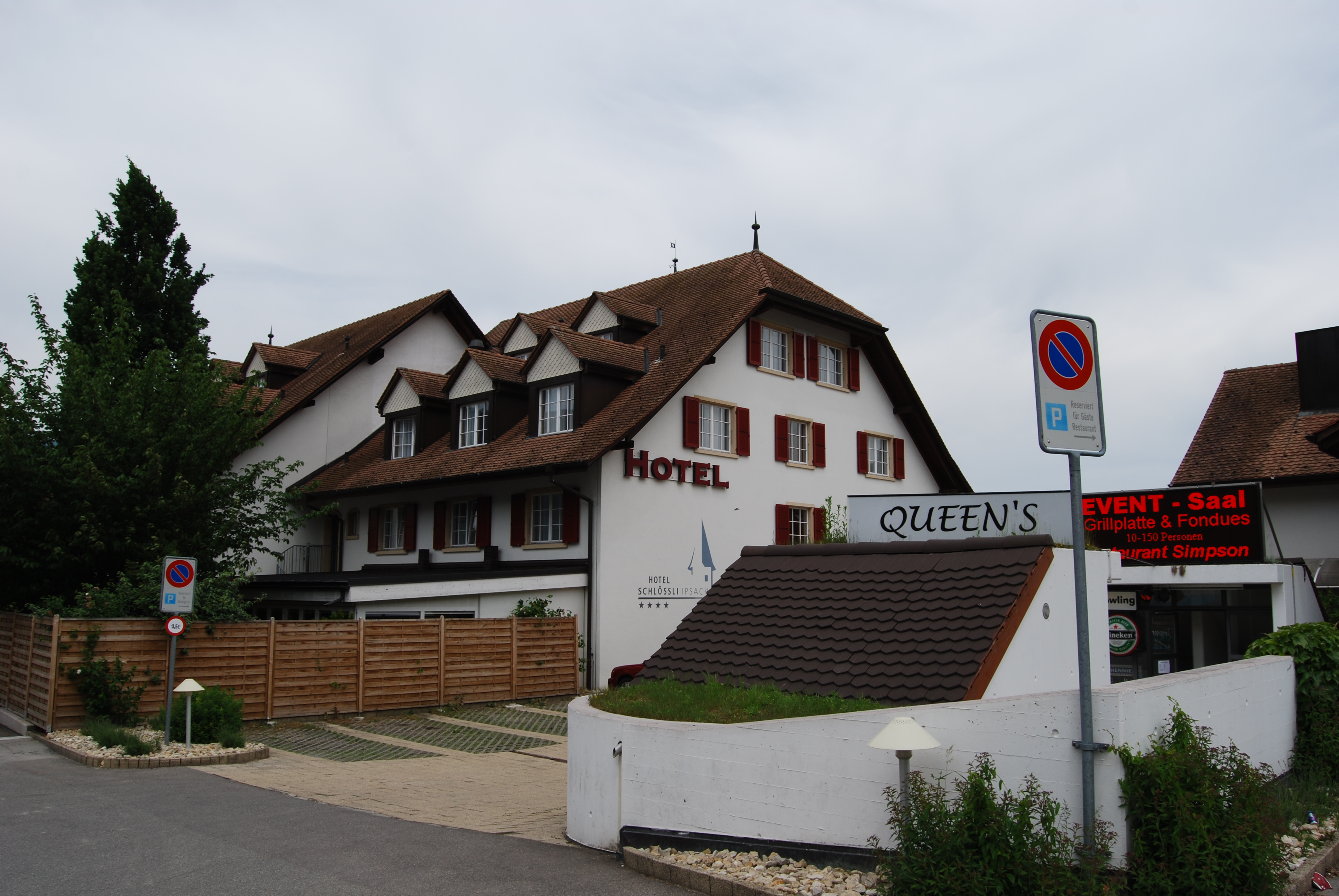 Ipsach, canton of Bern, SwitzerlandEsperanto: Ipsach, Kantono Berno, Svislando